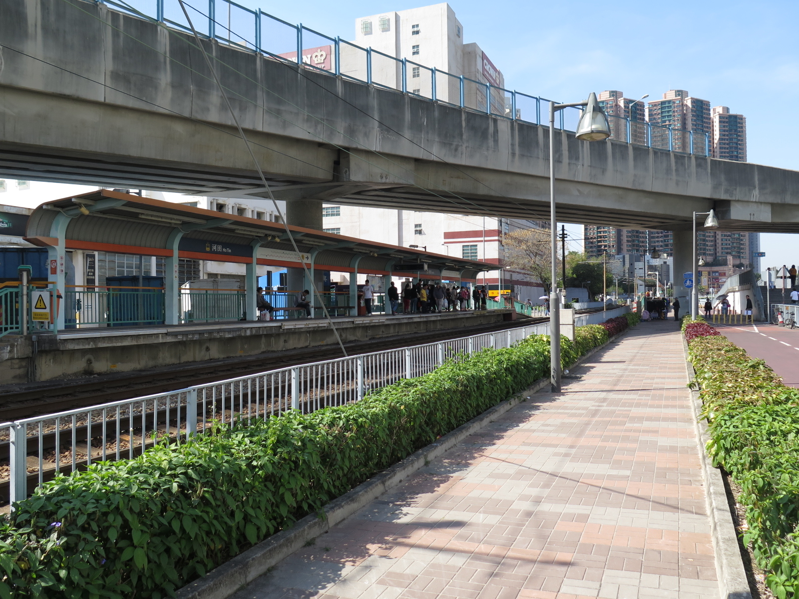 Ho Tin Stop